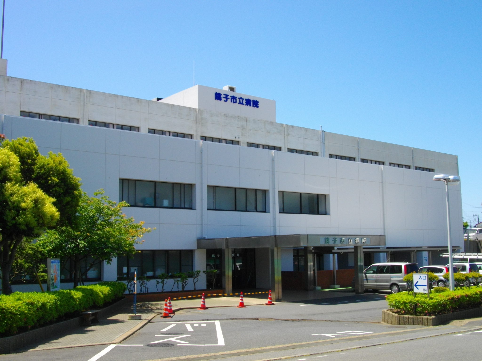 Choshi Municipal Hospital